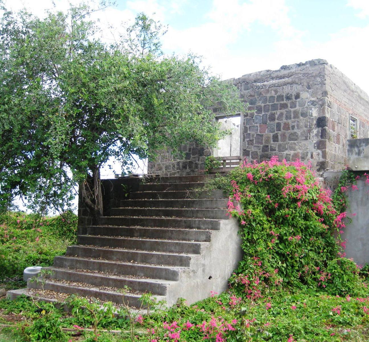 Remains of the estate Graavindal of Johannes de Graaff on Sint Eustatius